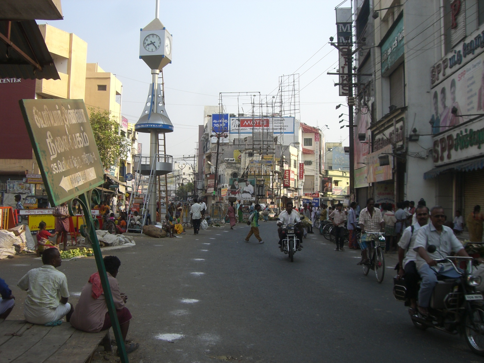 Typical streetlife in Erode, capital of Erode district, India.